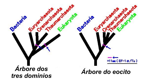 eocite hypothesis